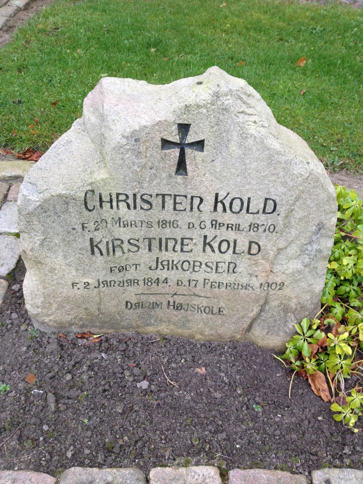 Tombstone of Christen Kold (29/03/1816 - 04/06/1870), at the church in Dalum, Odense, Denmark